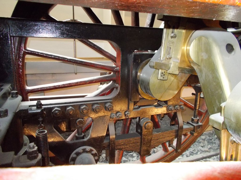 Bar frame of the bavarian S 2/6 in the Verkehrsmuseum Nürnberg